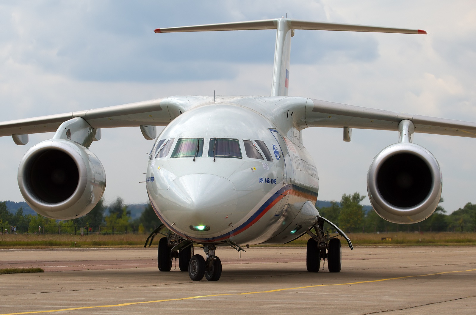 First Russian-built An-148 plane at the MAKS 2009 airshow at Moscow - Zhukovsky